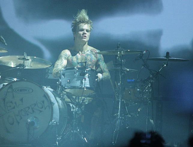 Steven Forrest playing with Placebo in Bologna 29/11/09